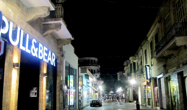 Ledra Night Nicosia Cyprus